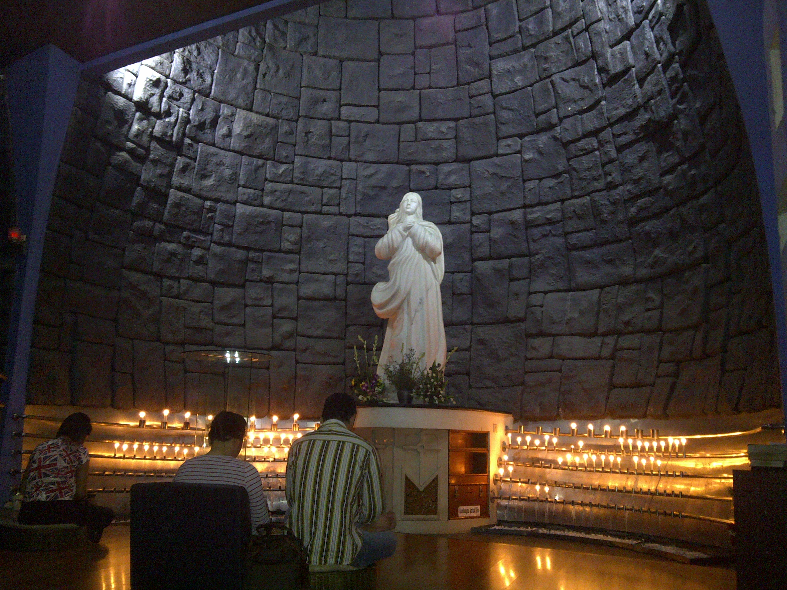 Maria Grotto at Santa Maria Tak Bercela Church, Surabaya, Indonesia